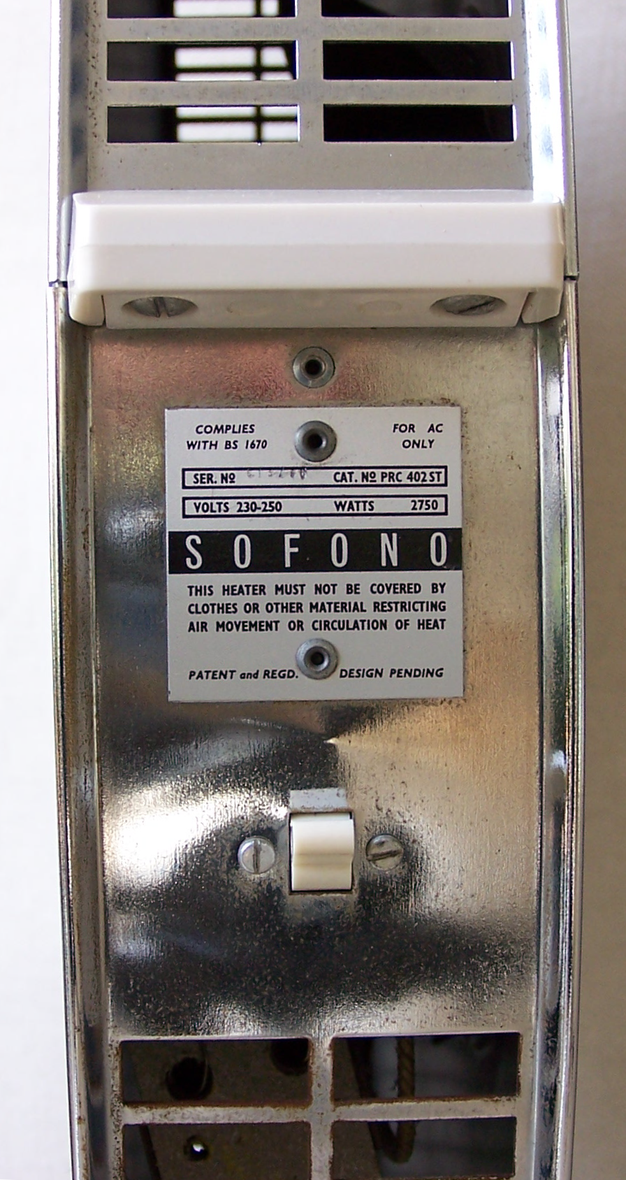 Left-hand control panel of the Spacemaster convector-reflector heater showing on-off switch for reflector (radiant) section, and information label.